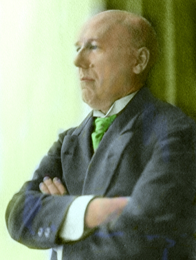 Fyodor Sologub in 1913